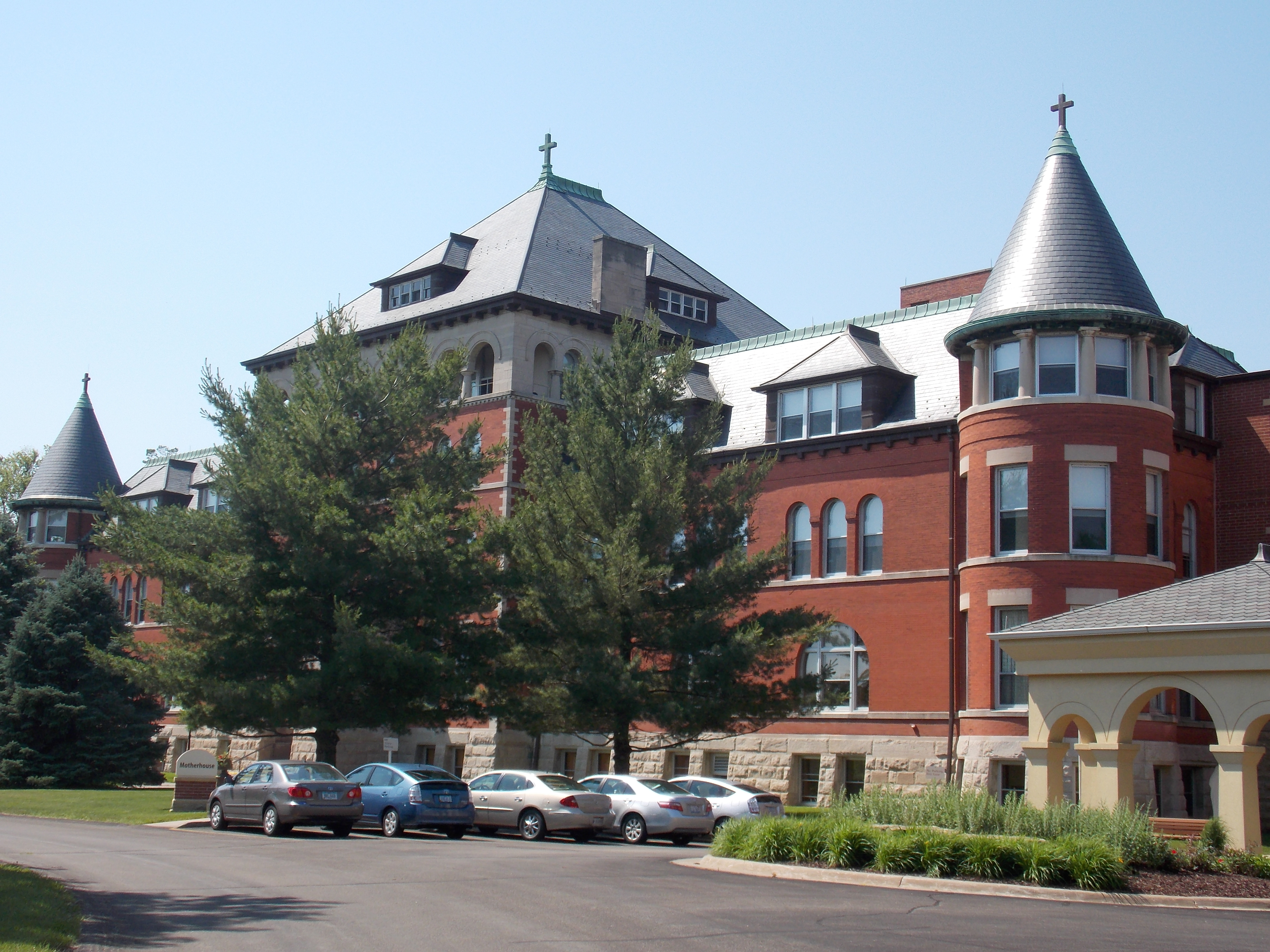 Mount Carmel, the Motherhouse complex of the Sisters of Charity of the Blessed Virgin Mary in Dubuque, Iowa.